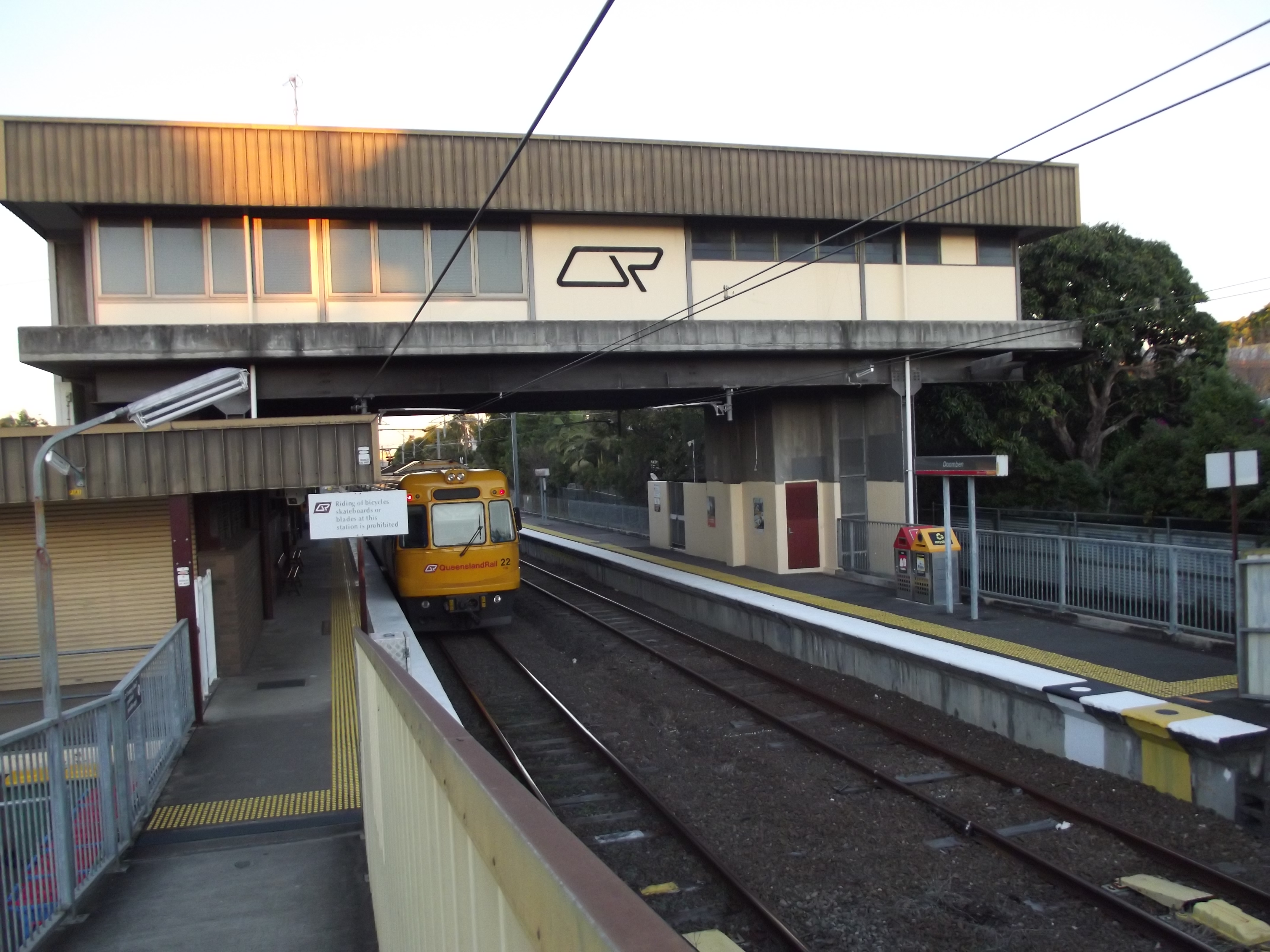 A photo of the Doomben railway station operated by TransLink, located in Brisbane, Queensland.